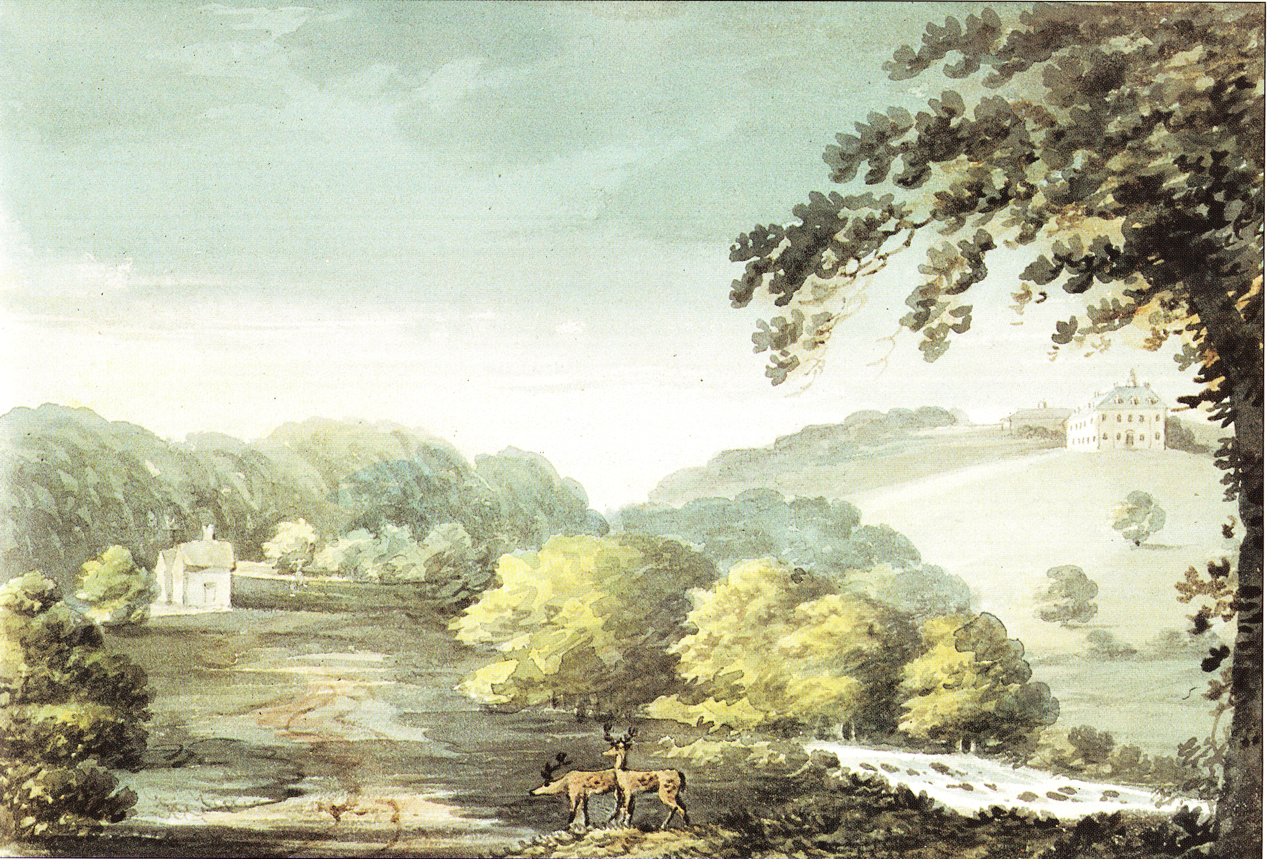 "Nuneham, seat of ... Stroud Esq.", watercolour of Newnham Park, Plympton St Mary, Devon, by Rev John Swete (1789-1800)